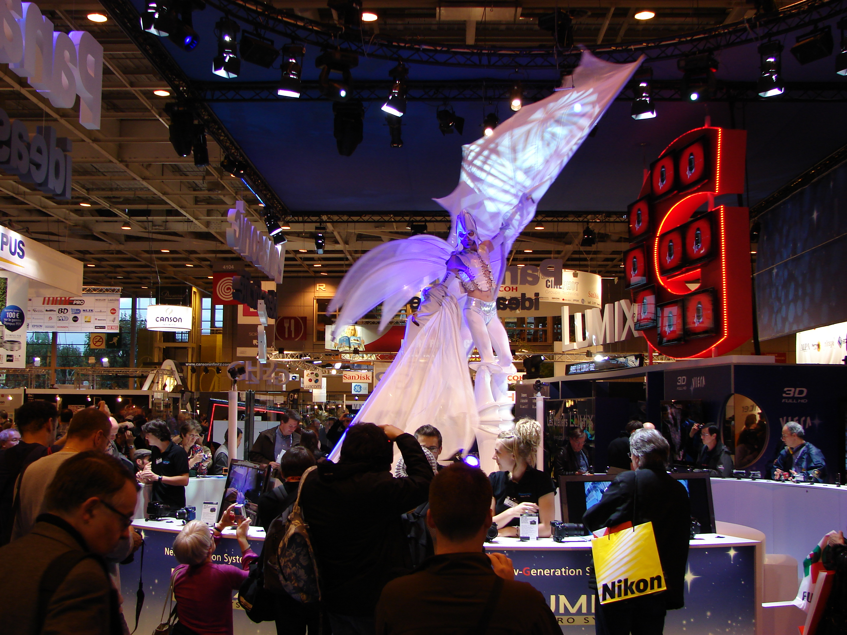 Photography event in Paris (France)